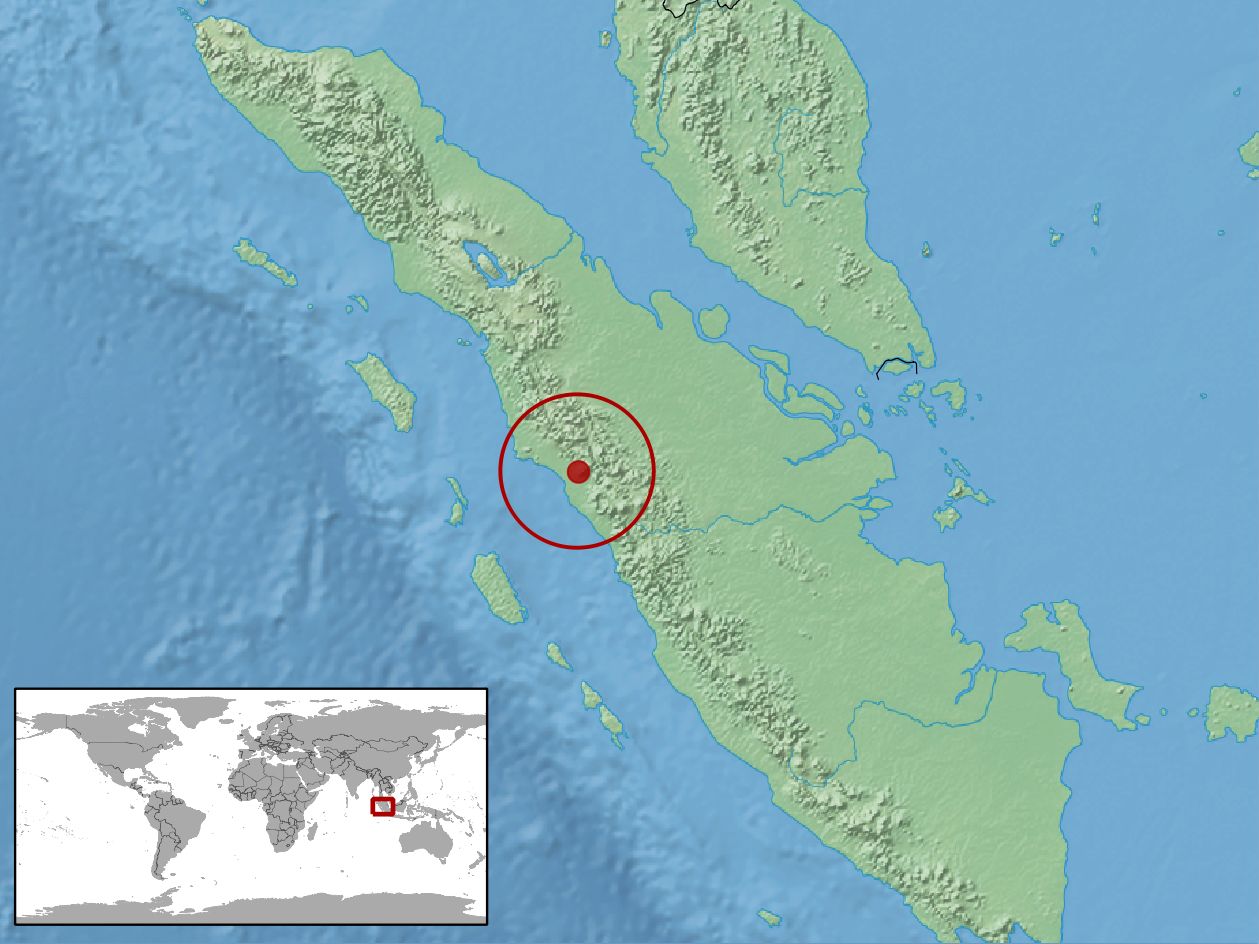 geographic distribution of Calamaria crassa (Native: Indonesia (Sumatera))